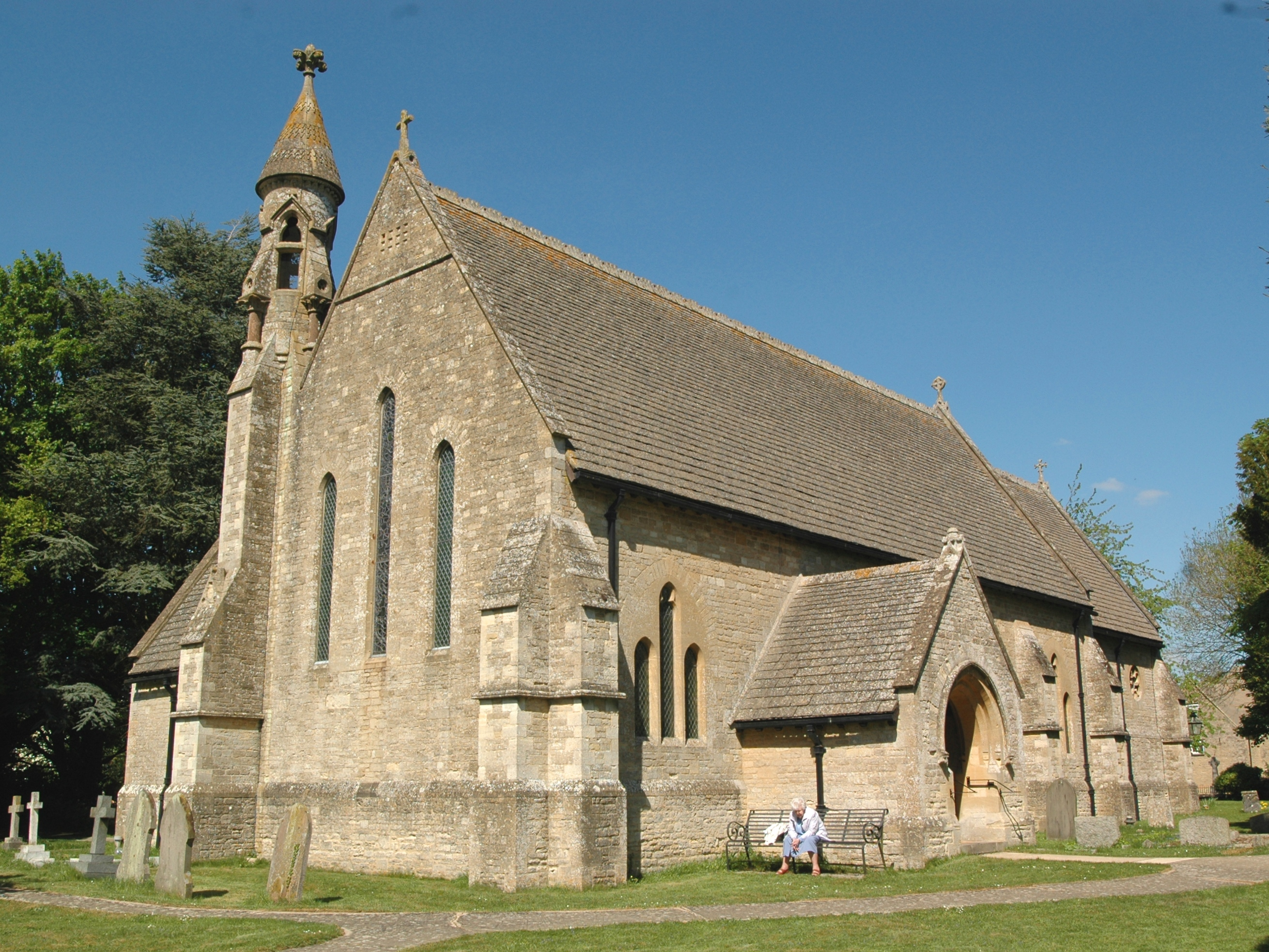 Church of England parish church of St John the Evangelist, Hailey, Oxfordshire, viewed from the southwest